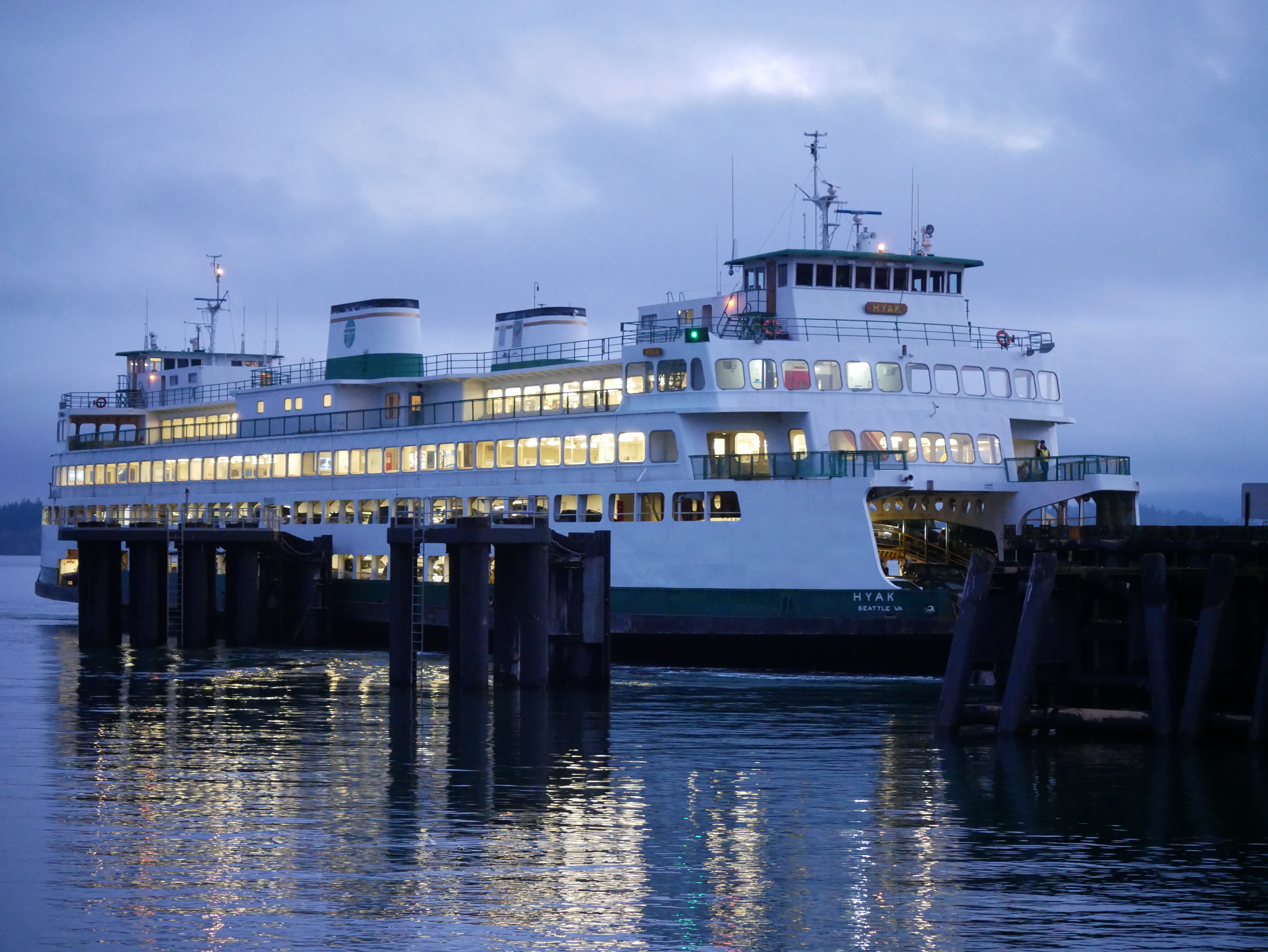 M/V Hyak approaching Anacortes on the morning of November 23, 2018